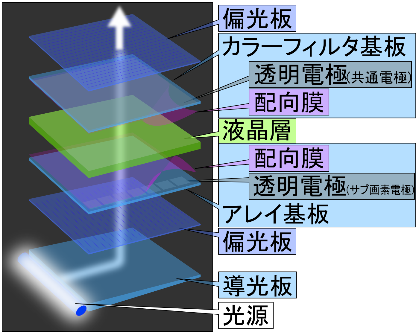 LCD Panal (Layer model) with Japanese labels